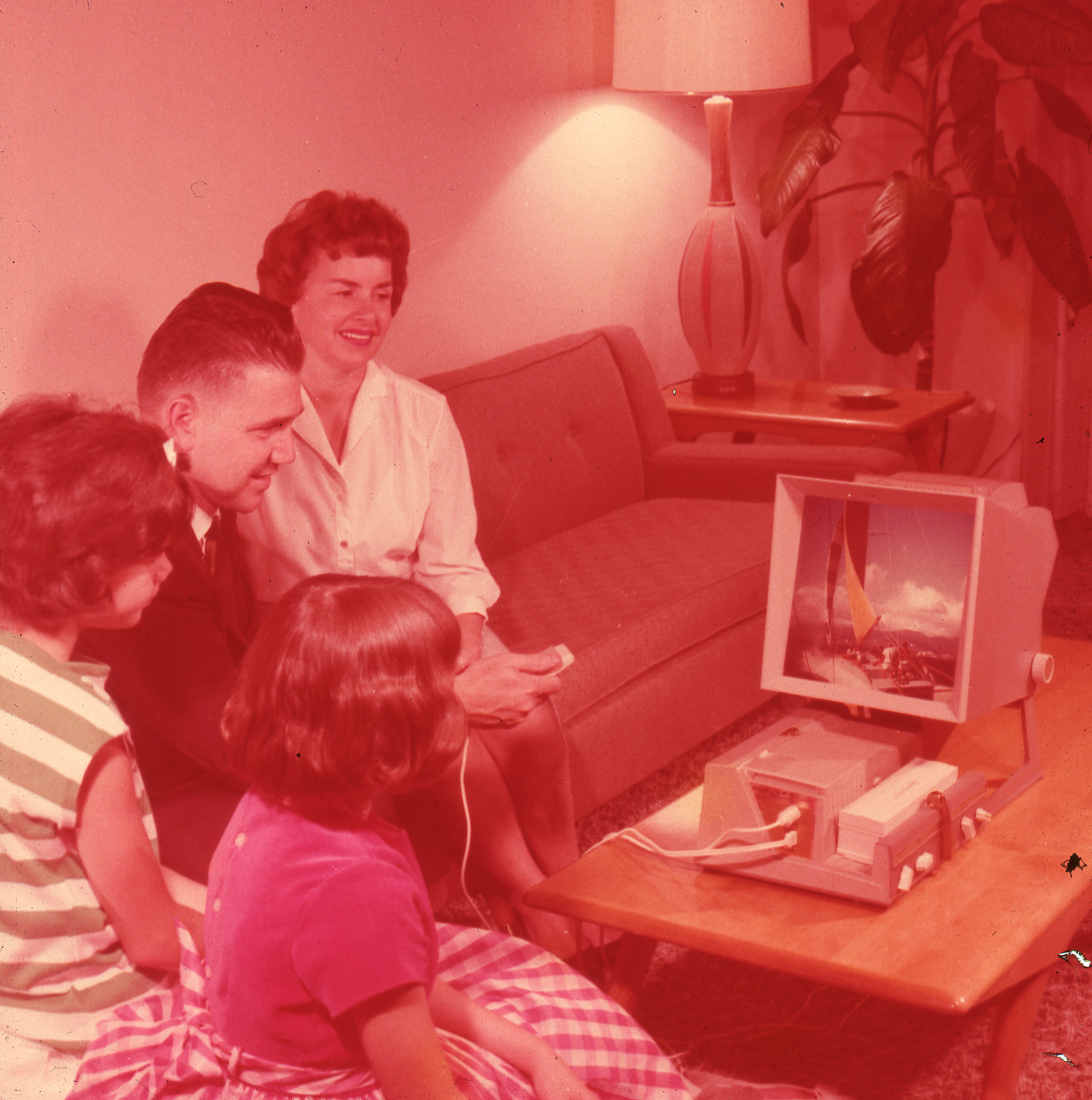 Sawyer's Demonstration Slide: Mirascreen Projection